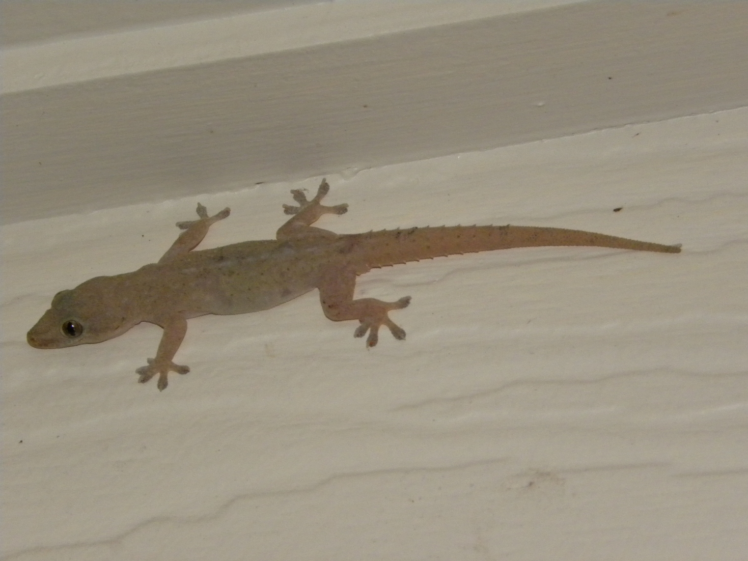 Asian house gecko aka common house gecko (Hemidactylus frenatus) originated in Asia but is now found in the USA and Australia.